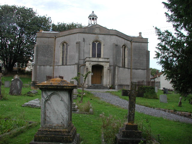 BLACKFORD, Somerset. The unusual sort-of-octagonal church of the Holy Trinity